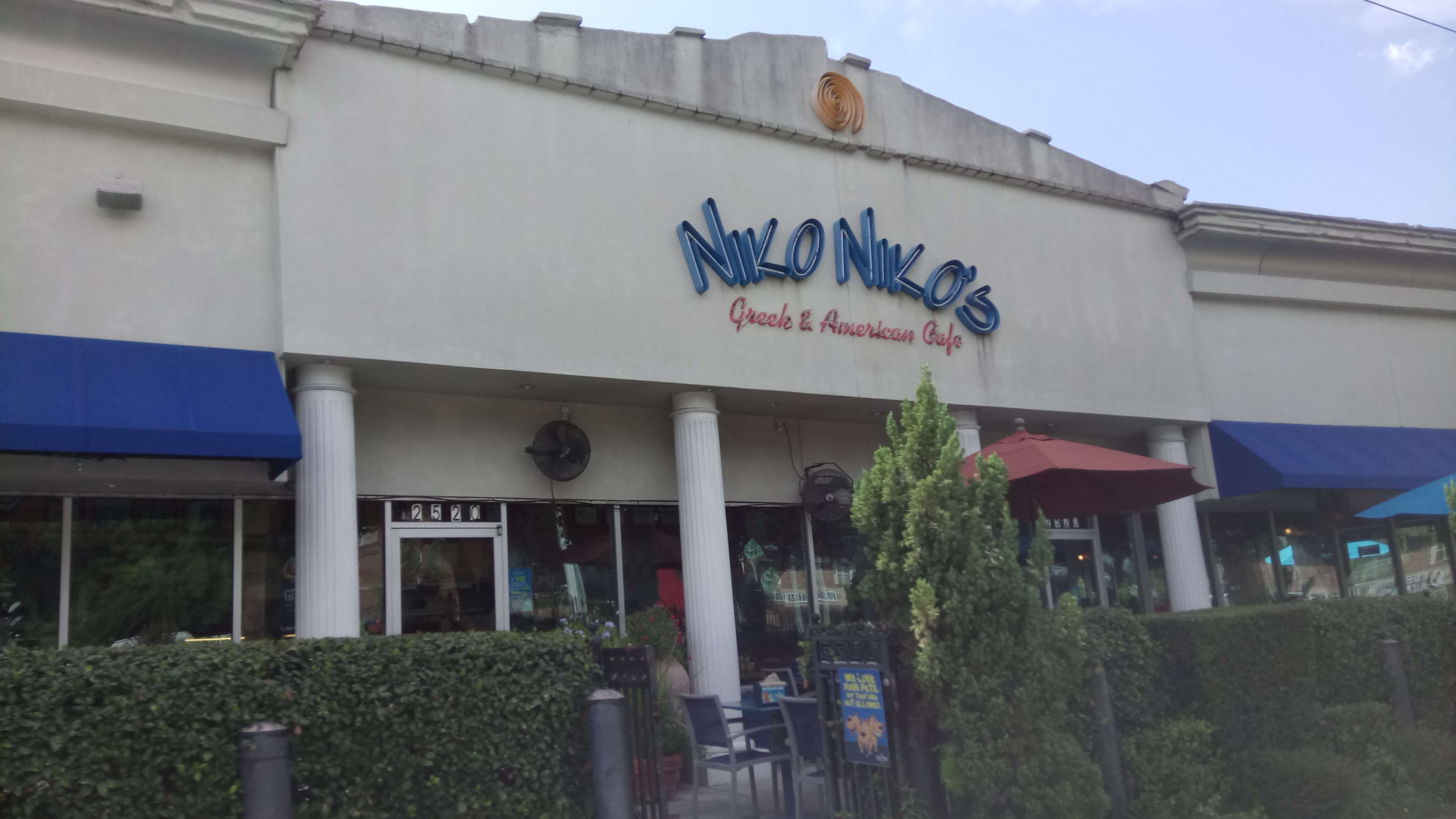 Niko Niko's